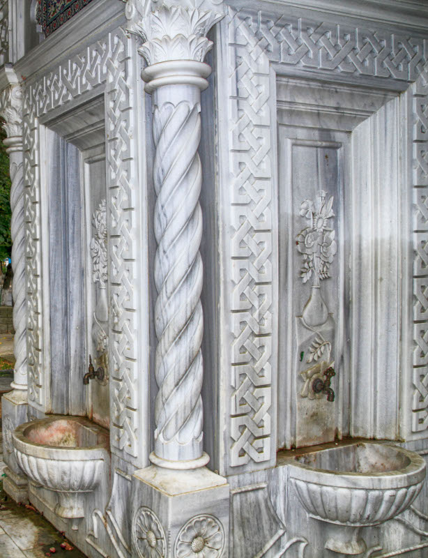 Grandmother Lily Fountain in Vresovo, Ruen municipality